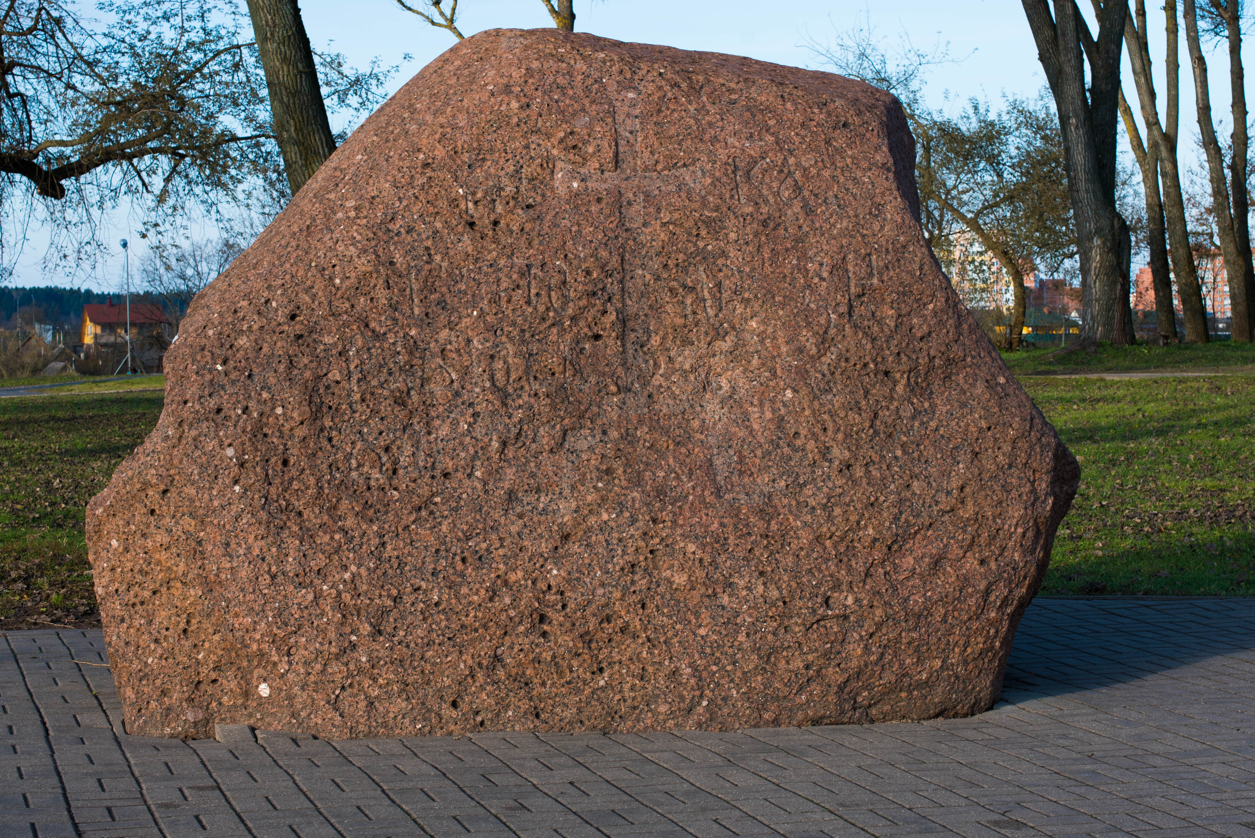 Boris stone near Cathedral of Saint Sophia. Polatsk, Belarus.